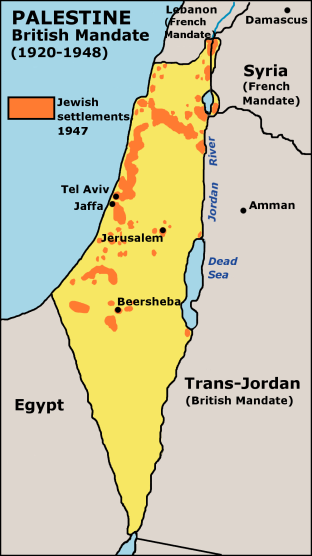 Map of Jewish settlements in Palestine in 1947.